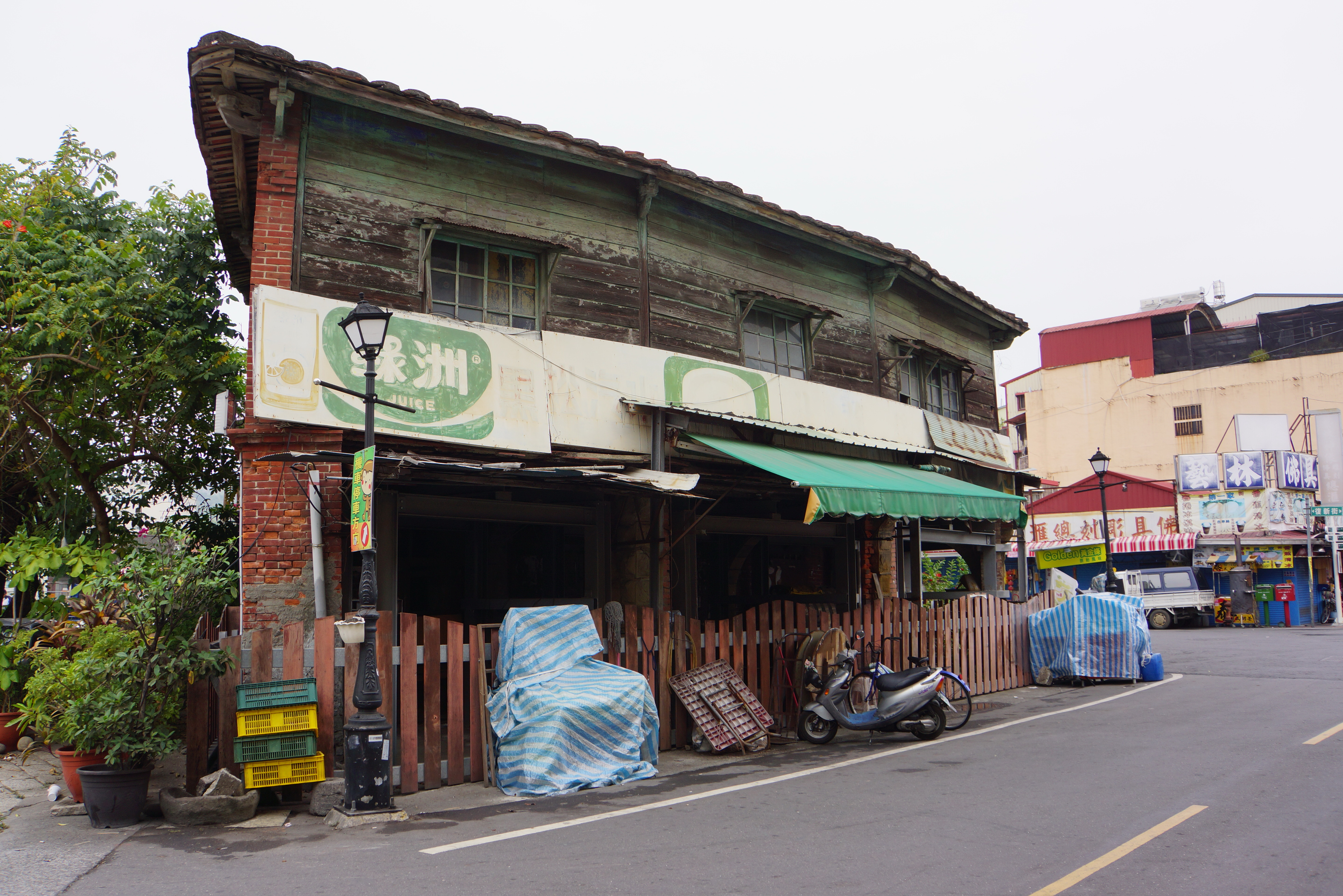 旗山老屋 Qishan Old House